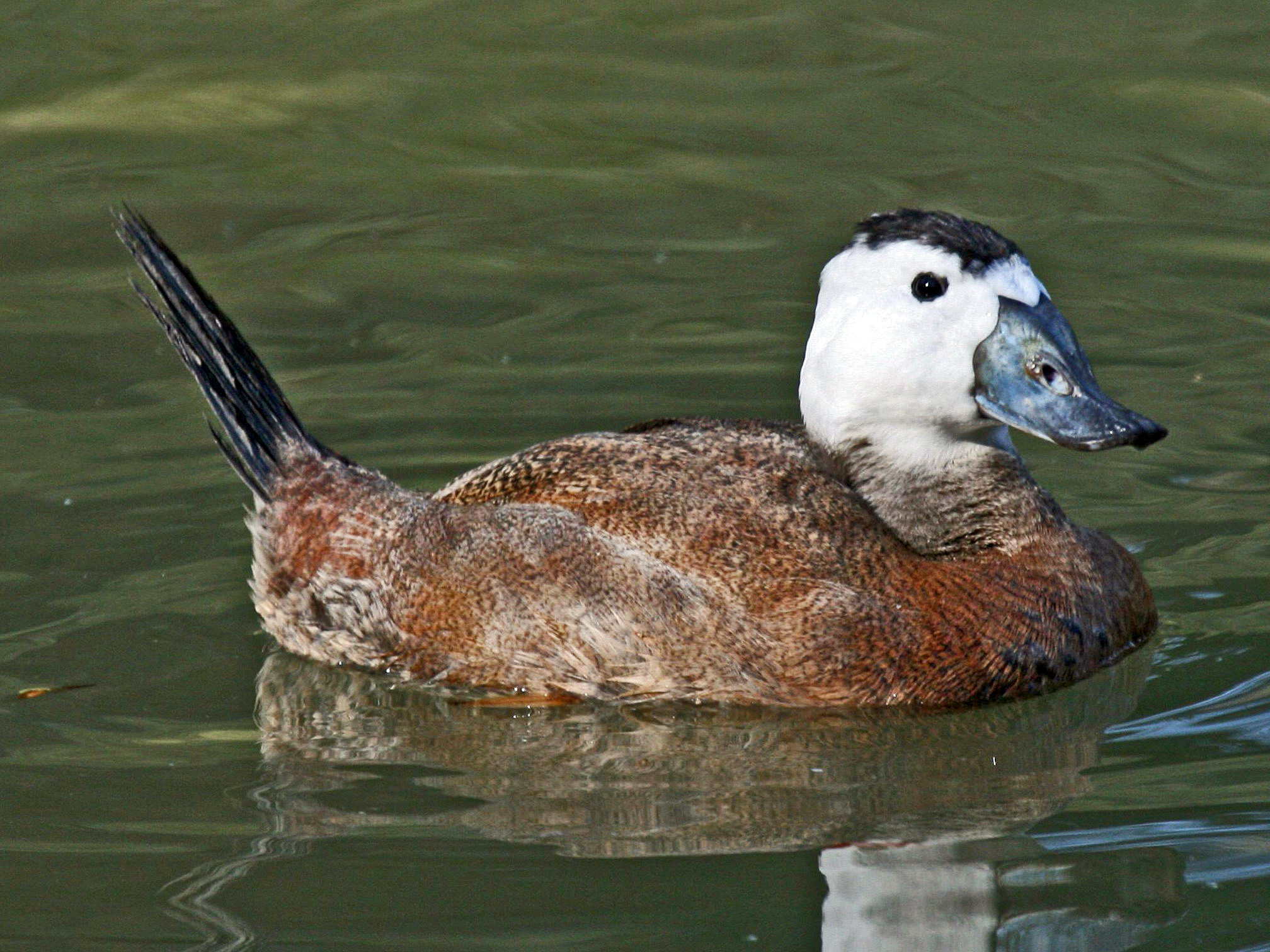 White-headed Duck (Oxyura leucocephala) at Sylvan Heights Waterfowl Park in Scotland Neck, North Carolina.